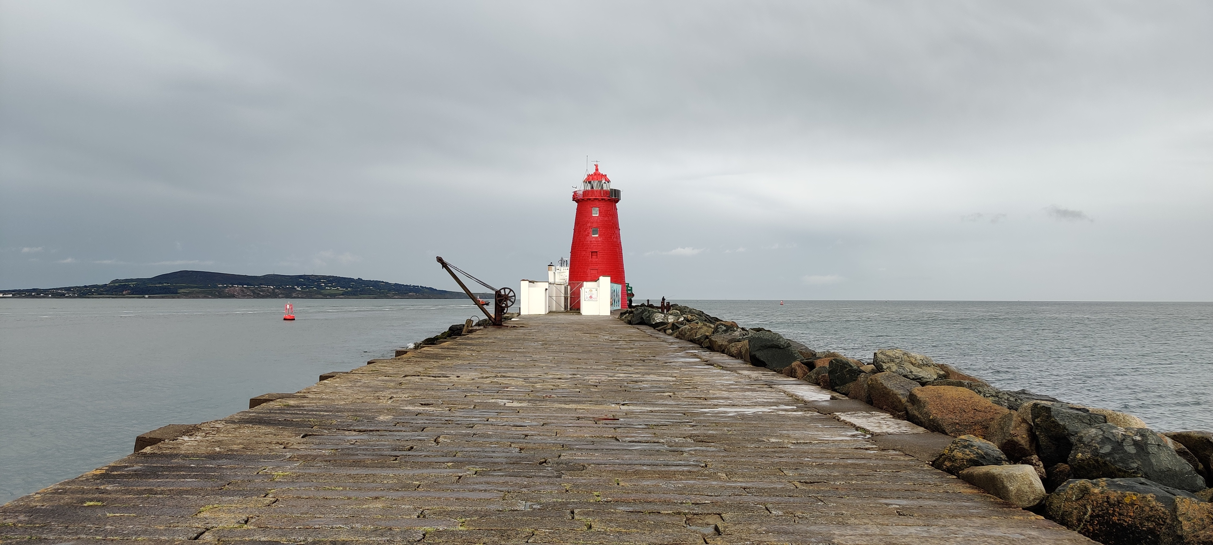 Poolbeg Lighthouse